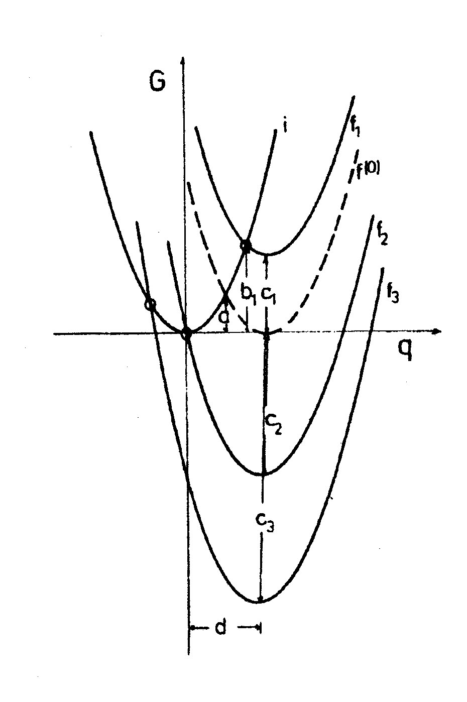 Marcus parabolas for redox reactions with varying free reaction enthalpie - inverted region